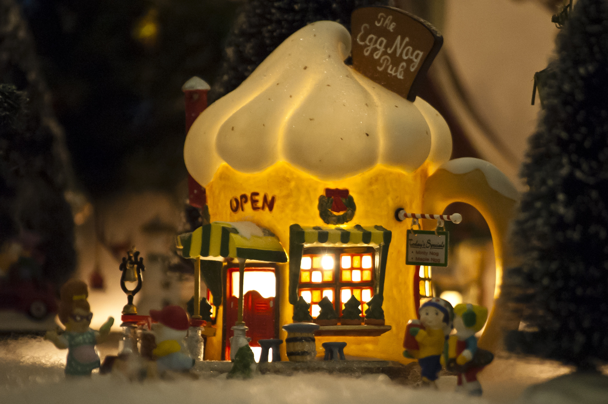 A Department 56 lighted house, part of the North Pole collection.